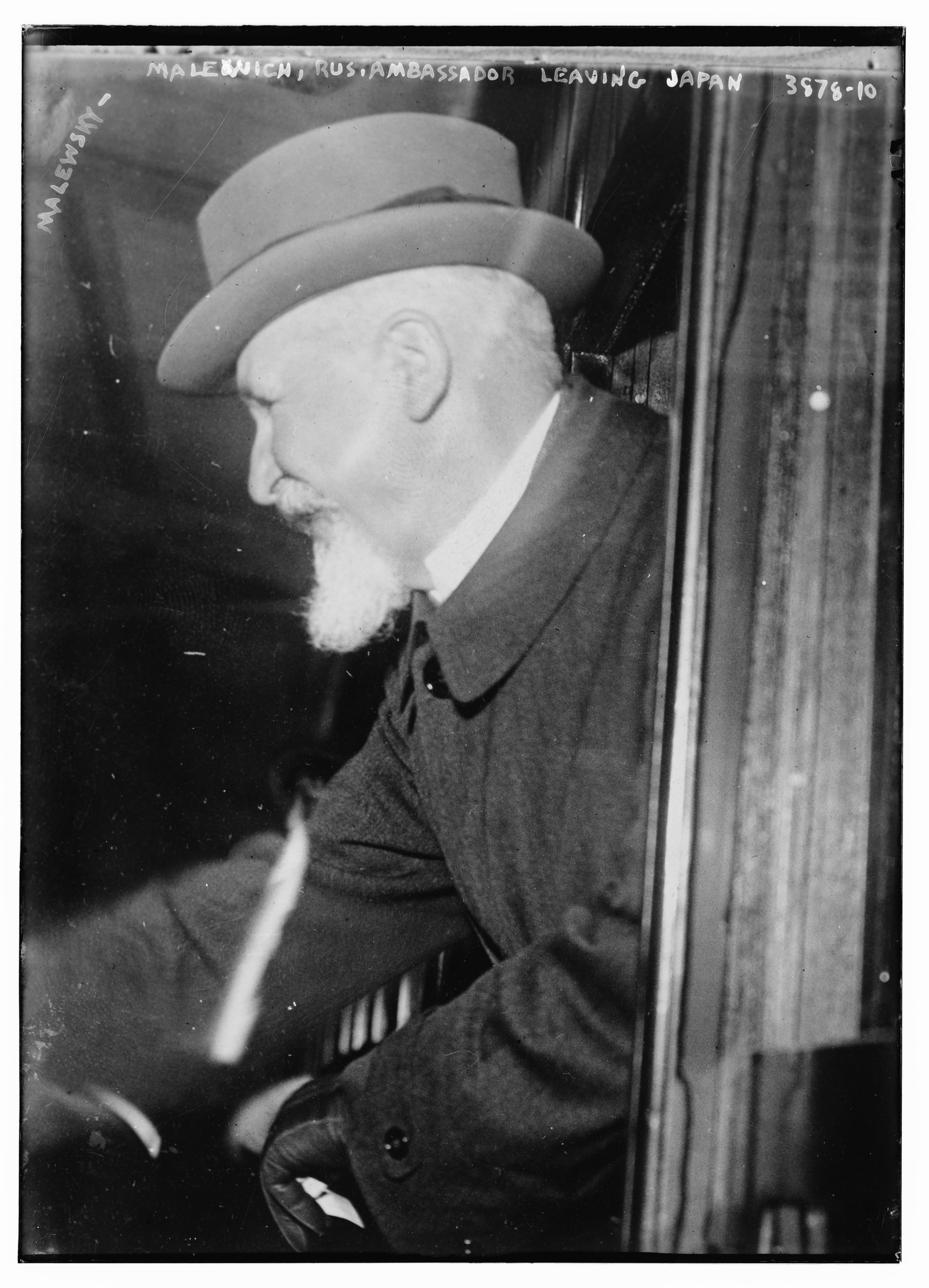 Title: Malewsky-Malewich, Rus[sian] Ambassador leaving Japan Abstract/medium: 1 negative : glass ; 5 x 7 in. or smaller.